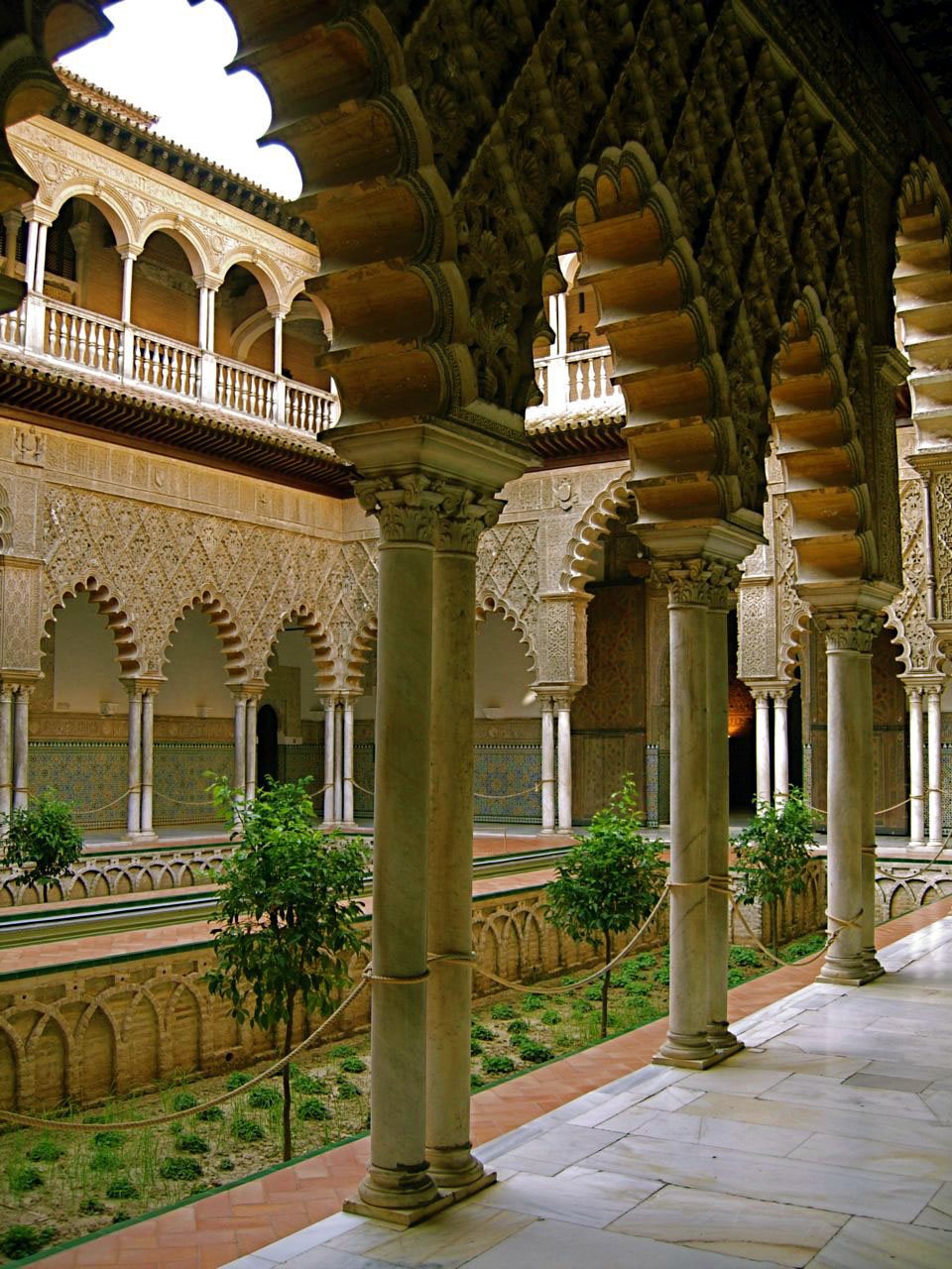 Alcázar of Seville